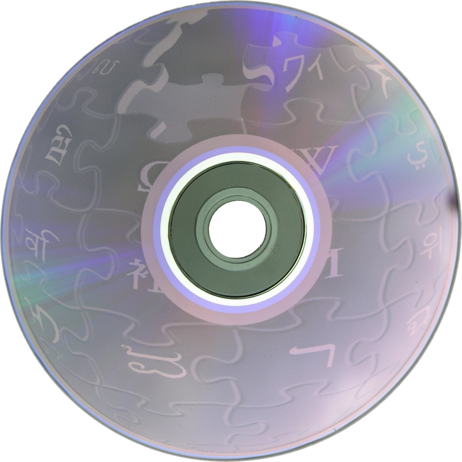 An ordinary Verbatim DVD+R 2,4x printed with the Wikipedia Logo using a NEC ND-4571A.